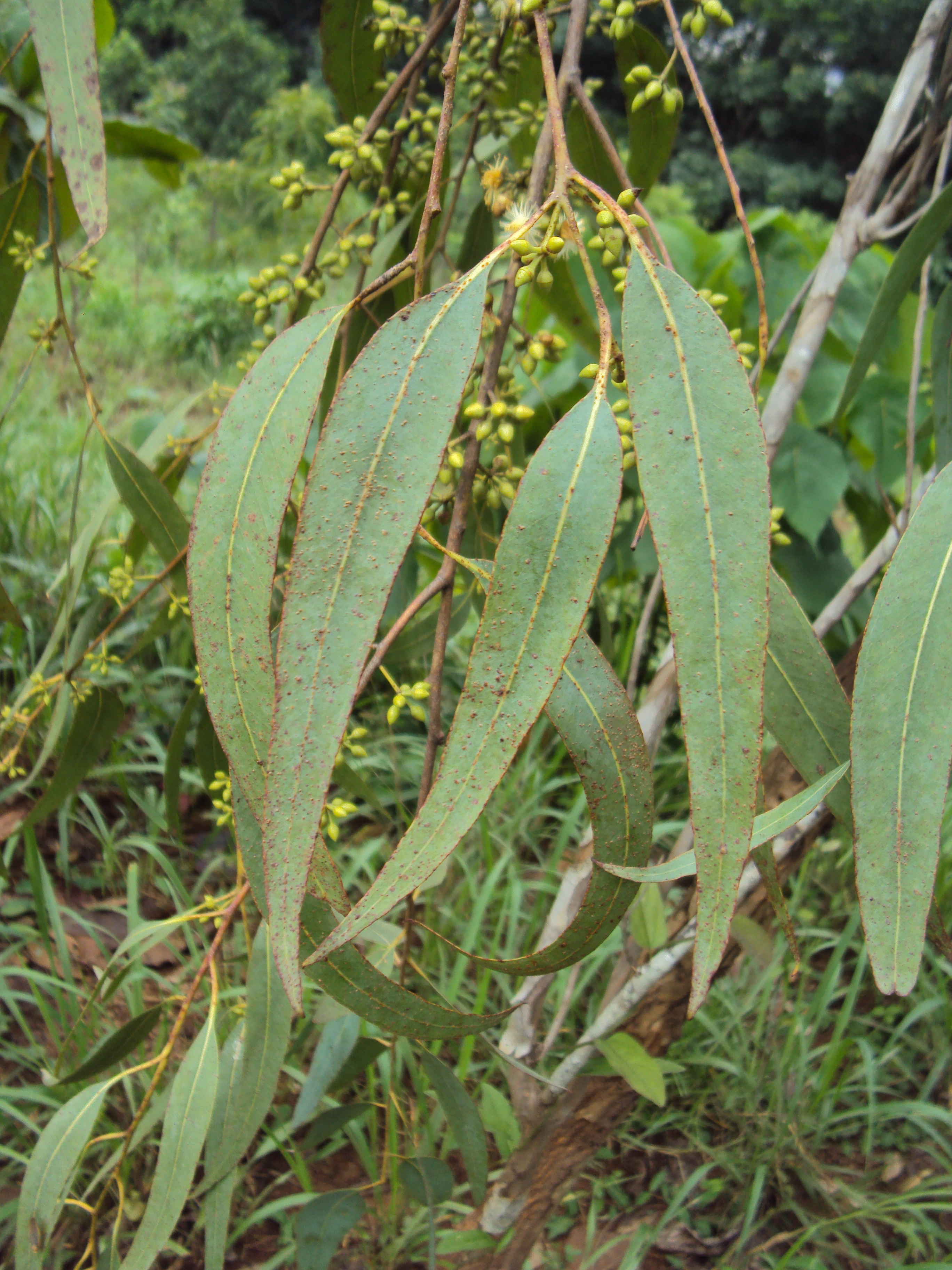 Eucalyptus camaldulensis